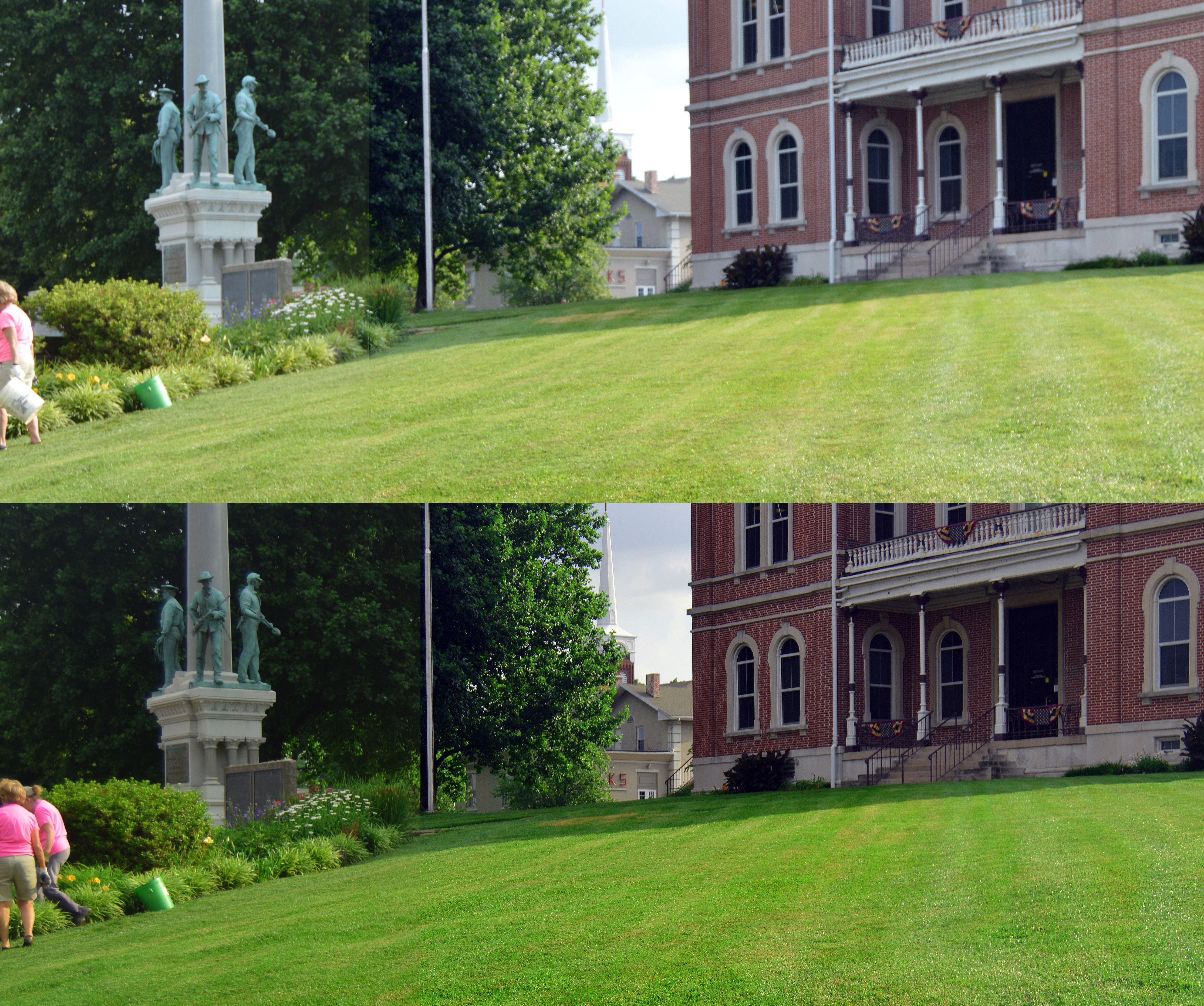 Grass on the western lawn of the Posey County Courthouse in central Mount Vernon, Indiana, United States. At left, members of the local garden club improve a floral display near the Civil War memorial, while above them, the sun is visible on a partly cloudy day. The upper photo is an ordinary image taken with a Nikon D3200 on full-automatic settings (except with flash manually suppressed), unedited, and typical of a snapshot with this camera on these settings, aside from the motion blur. Contrast this image with the lower image of the same scene, taken only seconds later, through the lens of Enchroma anti-colorblindness sunglasses; both the green grass and the pink shirt of the garden club member are washed out in the upper image.